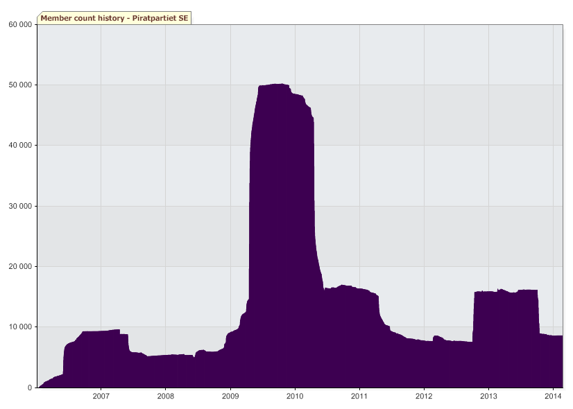 Piratpartiet's member count from the founding in January 2006 until 22 January 2014.